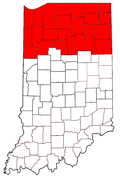 A map that highlights region of the Northern Indiana.